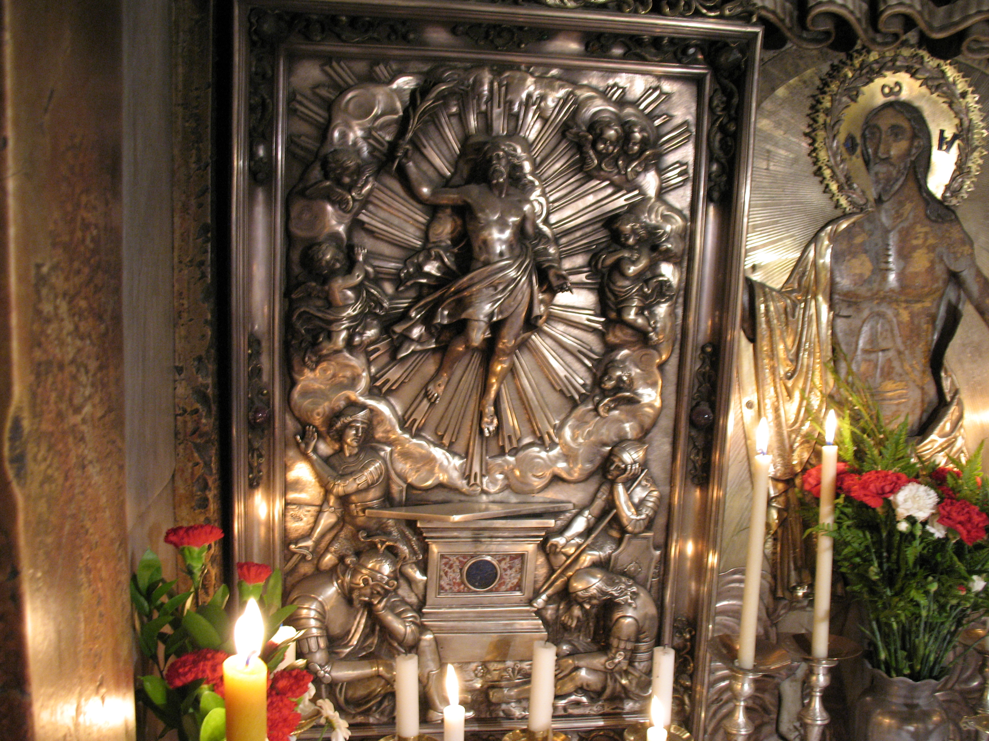 Ikons in Jesus's Tomb